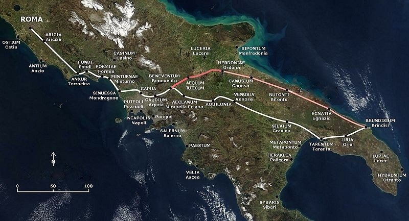 Via Appia (white colored) and Via Minucia (red coloured)